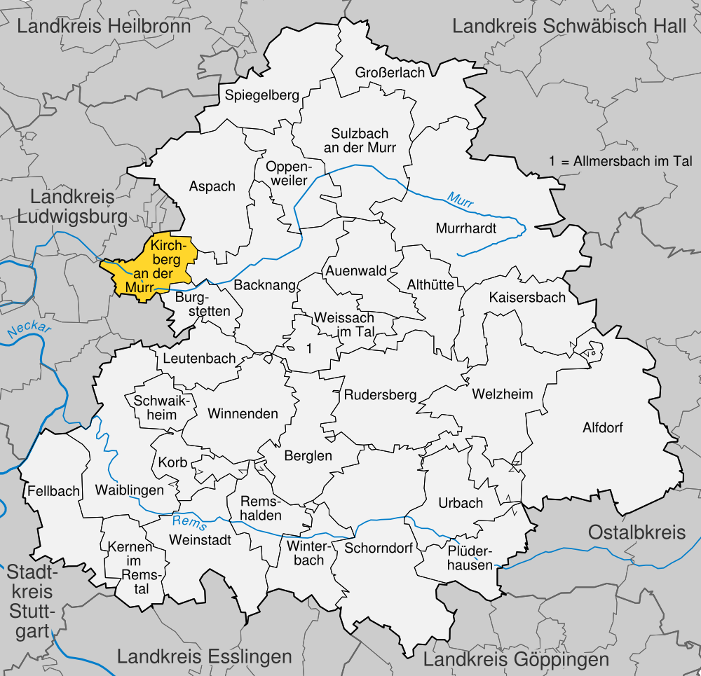 position of Kirchberg an der Murr within the Rems-Murr-Kreis, Baden-Württemberg, Germany